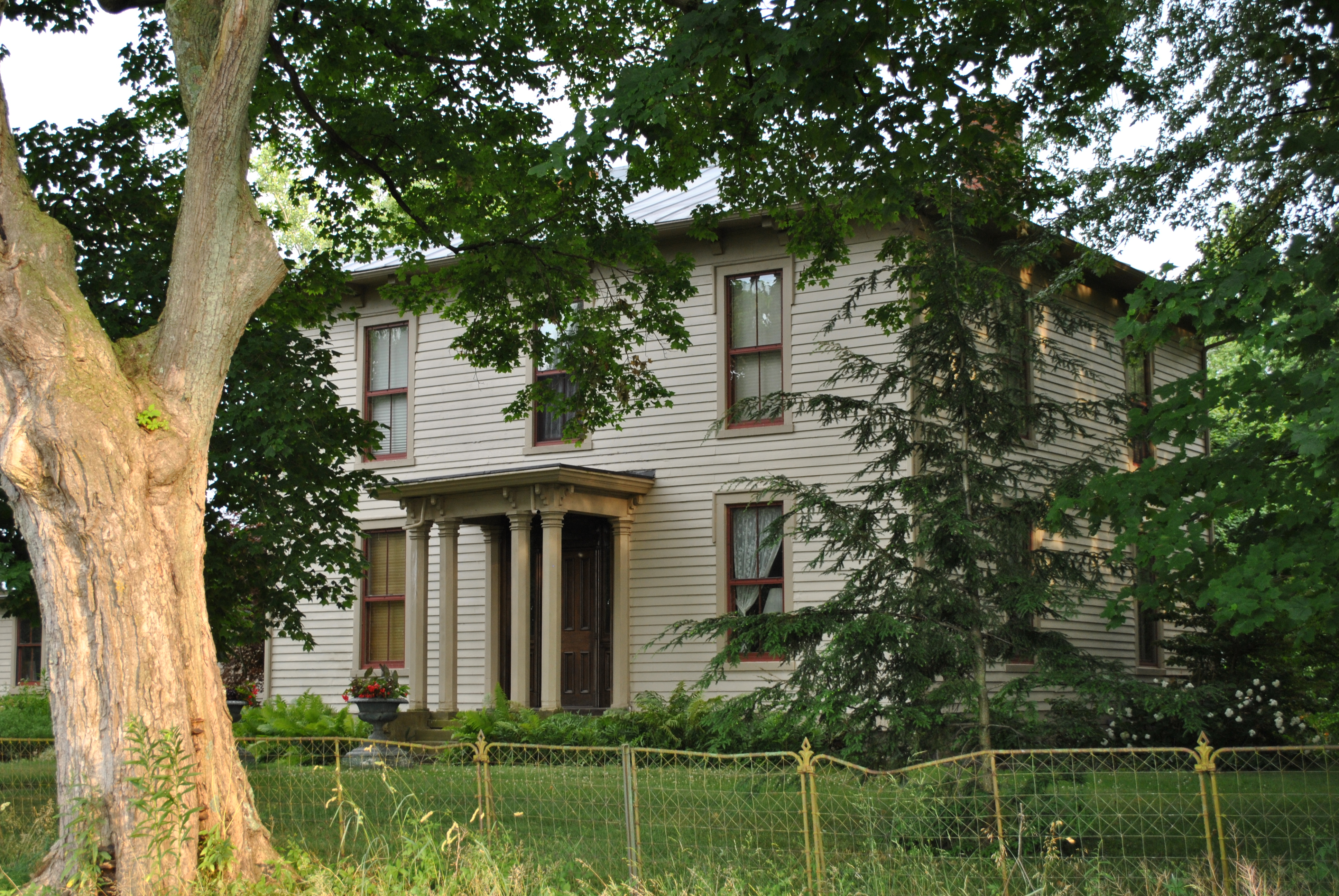 Located in Harlem Township, Delaware County, Ohio. Listed on the NRHP